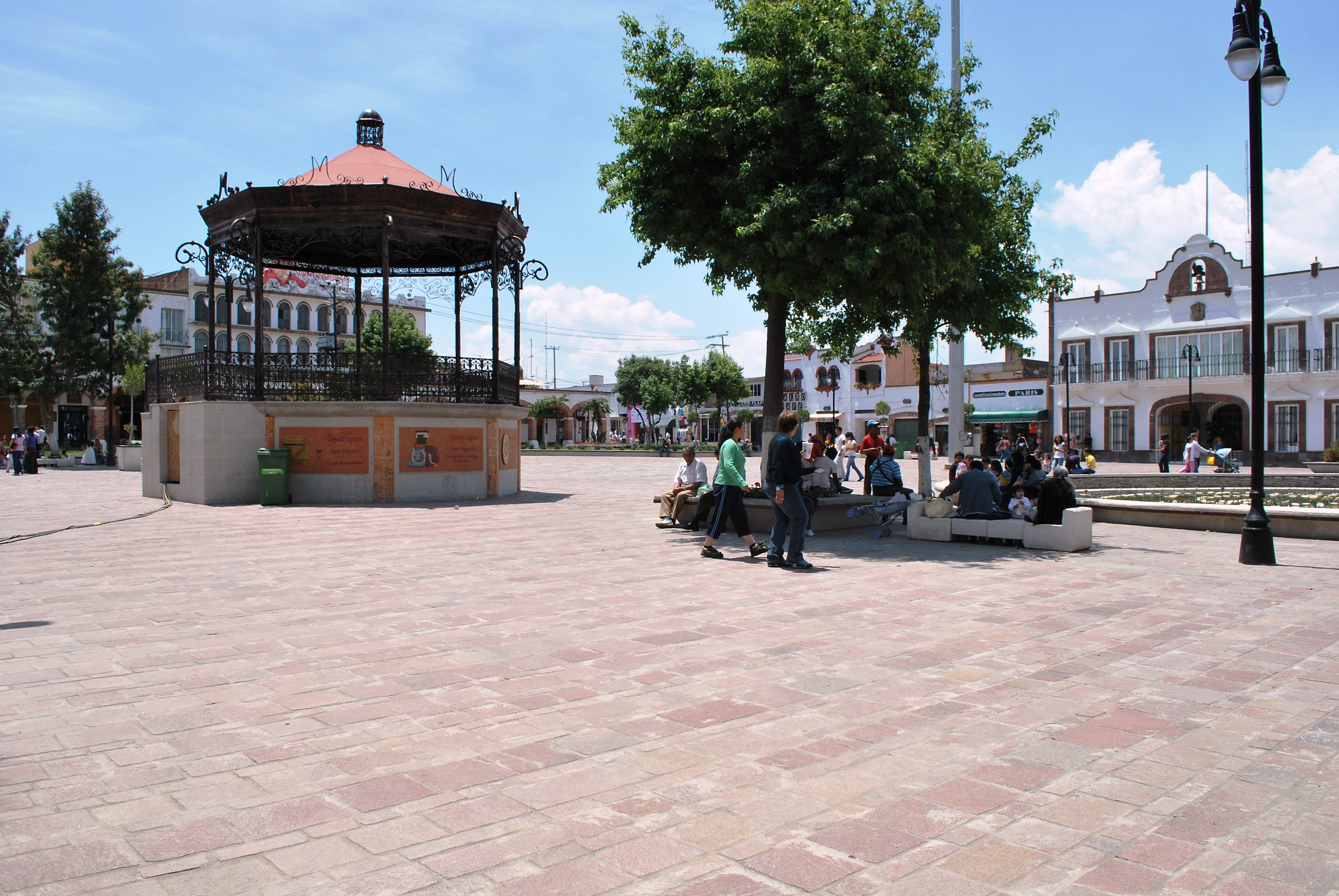 View of the main plaza of the historic section of Metepec, Mexico State